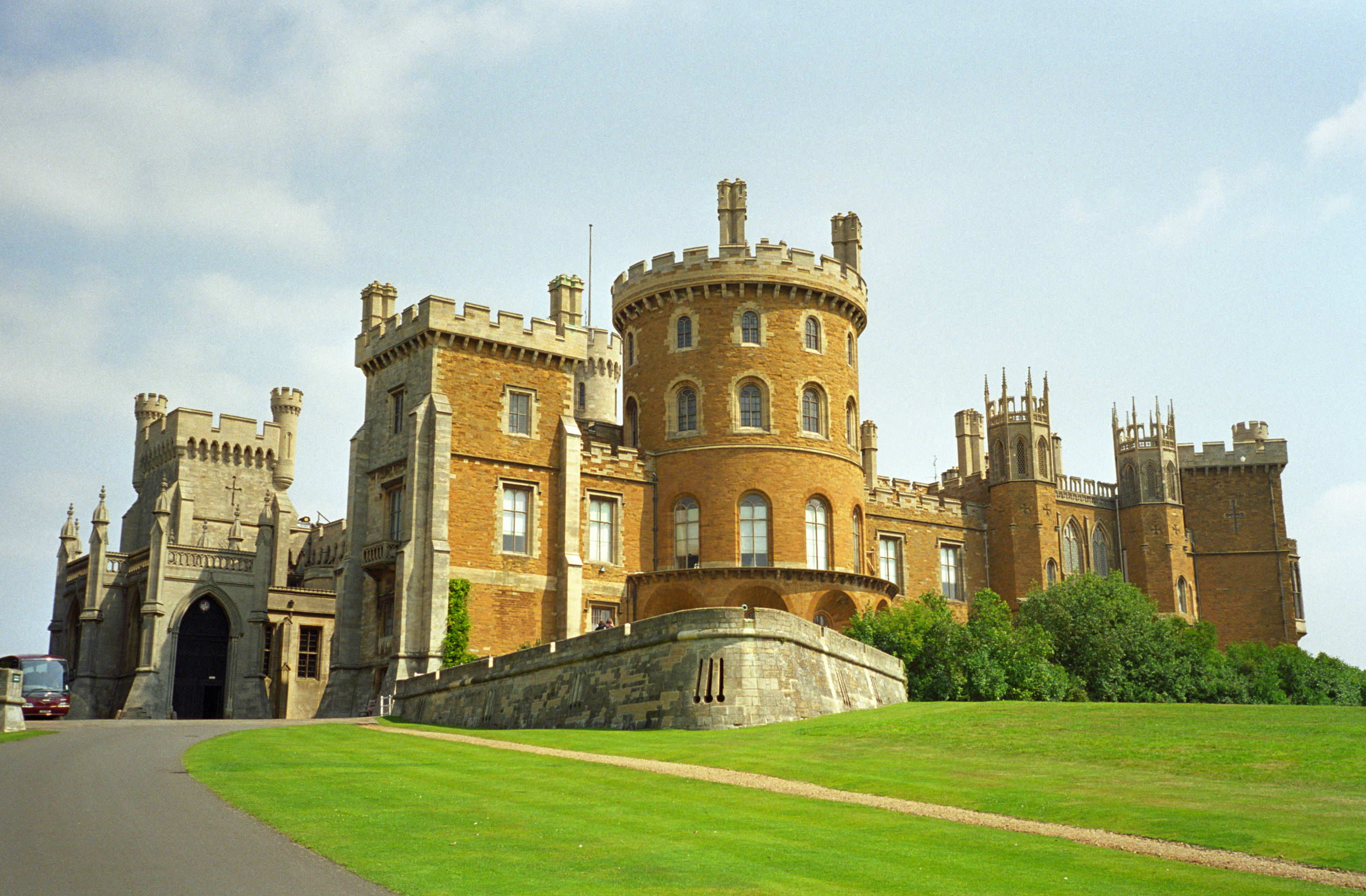 Belvoir Castle in Leicestershire, England